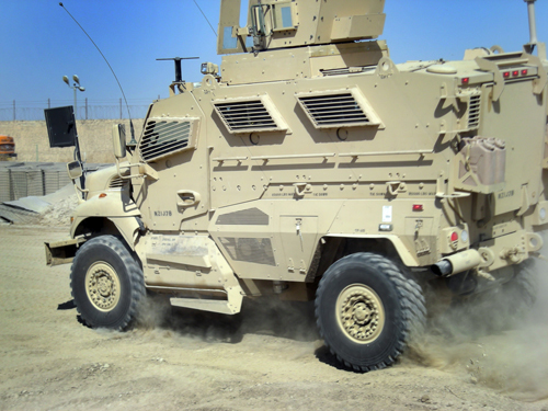 The new Mine Resistant Ambush Protected vehicle gets taken out for a spin during a training course at Camp Liberty in western Baghdad, Nov. 1. The 40-hour course is designed to teach Soldiers how to operate, maintain and drive the new MRAP vehicles. (U.S. Army photo by Sgt. Mark B. Matthews, 27th Public Affairs Detachment) Source: [1]